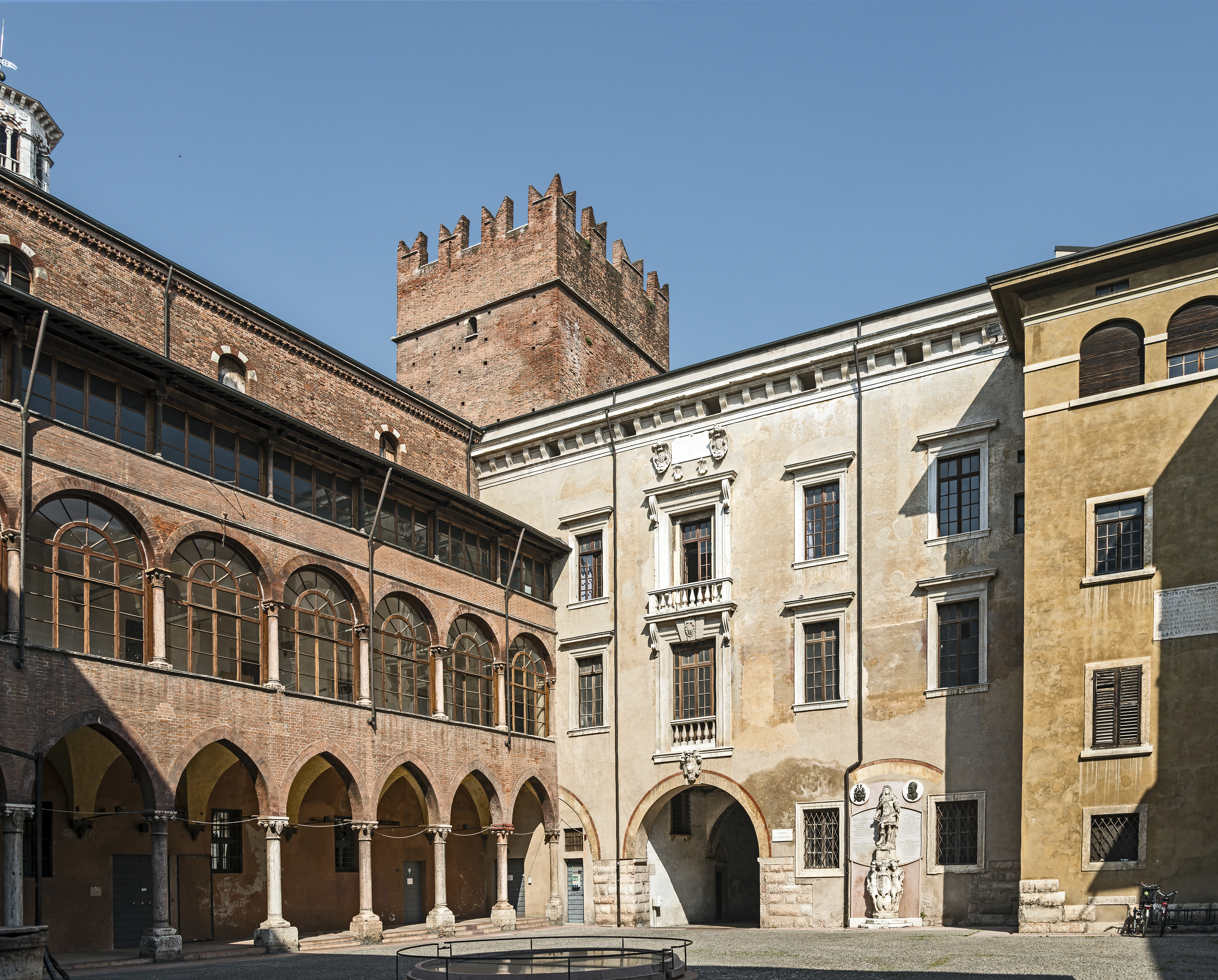 The courtyard of the Court in Palazzo di Cansignorio of Verona.